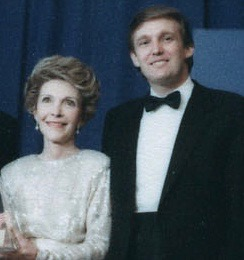 Nancy Reagan and Donald Trump